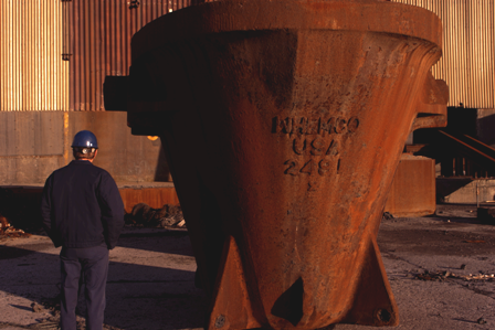 Author - Alistair Siddons Source - my original photograph, taken at Chemetco site in January 2005 Picture shows a slag pot at the former Chemetco site User:Astral highwayAstral highway (User talk:Astral highwaytalk) 20:58, 3 January 2009 (UTC) Once again, I am trying to link this photo to the Chemetco page but don't seem to be able to work this out. Thanks in advanceUser:Astral highwayAstral highway (User talk:Astral highwaytalk) 21:27, 3 January 2009 (UTC) Author - Alistair Siddons Source - my original photograph, taken at Chemetco site in January 2005 Picture shows furnace ladle at the former Chemetco site Astral highway (talk) 20:58, 3 January 2009 (UTC) Once again, I am trying to link this photo to the Chemetco page but don't seem to be able to work this out. Thanks in advanceAstral highway (talk) 21:27, 3 January 2009 (UTC)